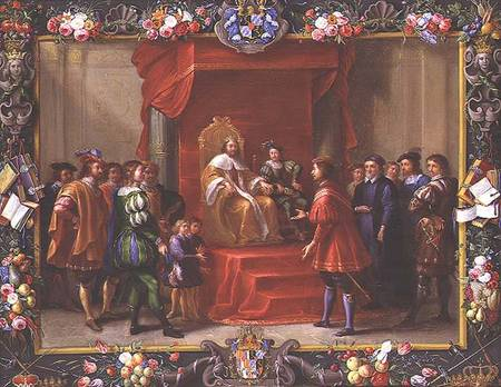 Guillaume-Raymond Moncada visiting the King of Aragon possibly Charles